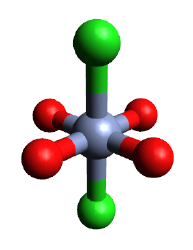 Experimentally accurate 3D model of hydrated chromium(II) chloride. Gray balls represent chromium atoms, red balls are oxygen, and green balls are chlorine. Hydrogen atoms omitted for clarity. The distorted octahedral complex contains two trans 2.074 angstrom Cr-O bonds and two trans 2.081 angstrom Cr-O bonds. The Cr-Cl bond length is 2.758 angstrom. See Von Schnering, H. G., and B‐H. Brand. "Struktur und Eigenschaften des blauen Chrom (II)‐chlorid‐tetrahydrats CrCl2. 4H2O." Zeitschrift für anorganische und allgemeine Chemie 402.2 (1973): 159-168 Created in Avogadro.